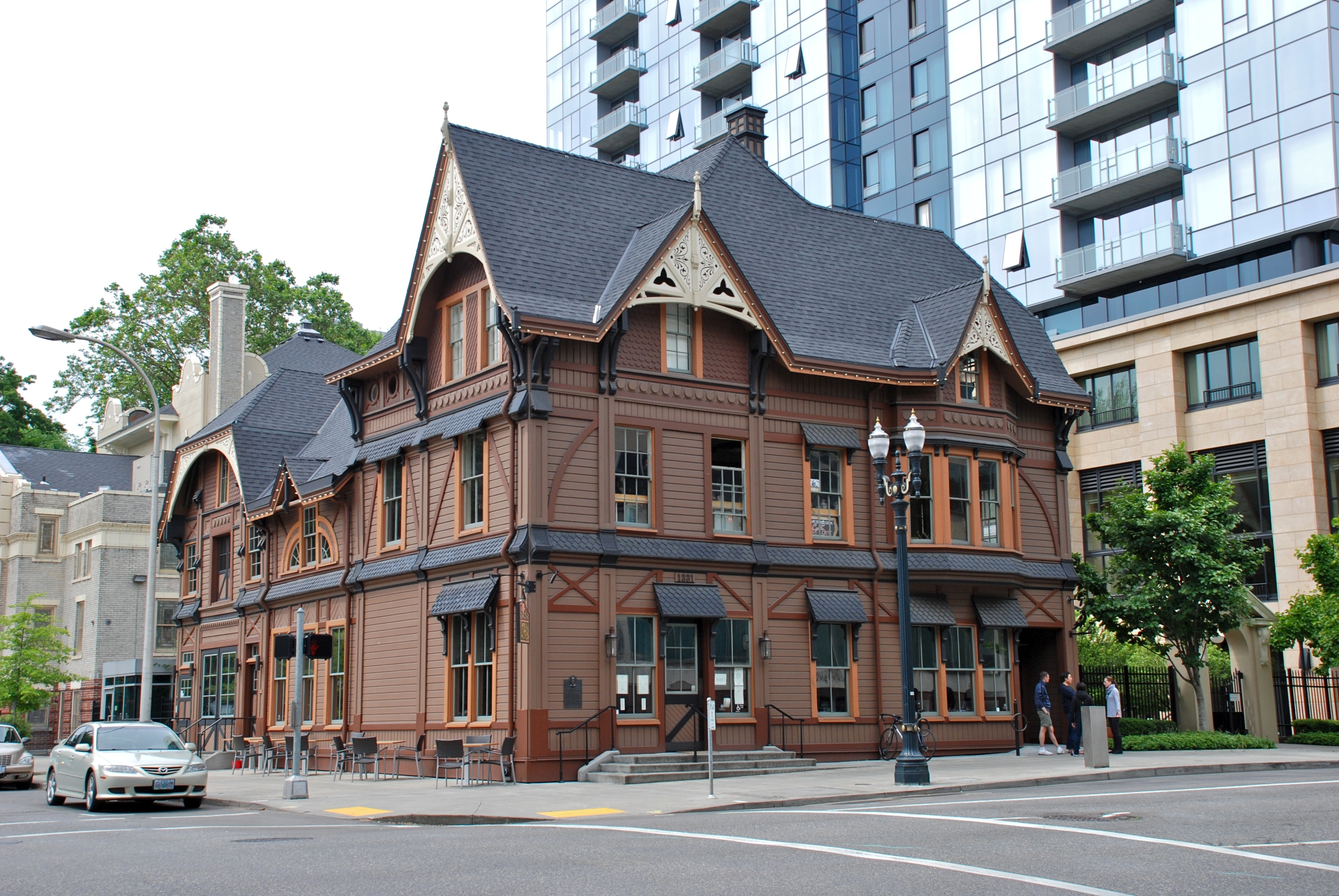 The Ladd Carriage House, in downtown Portland, Oregon, is listed on the U.S. National Register of Historic Places. In the background is the 2008/09-built Ladd Tower.